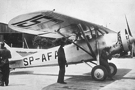 Polish sports plane PZL Ł.2 of 1929, a long distance variant of a liaison plane